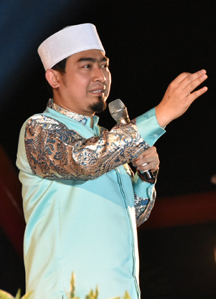 BENGKALIS - As one of the activities of the 507th Anniversary of Bengkalis, thousands of Bengkalis people thronged the Tabligh Akbar together with Ustadz Solmed, at Bengkalis Monument, Friday (7/19/2019) night. Tabligh Akbar attended by Bengkalis Regent Amril Mukminin was represented by Regional Secretary (Sekda) H Bustami HY, starting at 21:00 WIB and ending around 22:30 WIB. In his tausiah, the cleric whose full name is Sholeh Mahmoed Nasution reminded all Bengkalis people to always be grateful for all the gifts of Allah SWT, which were given to all people and regions. That was also a reminder for him, because it coincided on July 19, 2019, the cleric who was wearing a blue koko shirt in a blend of batik on his arms and neck was even 36 years old.